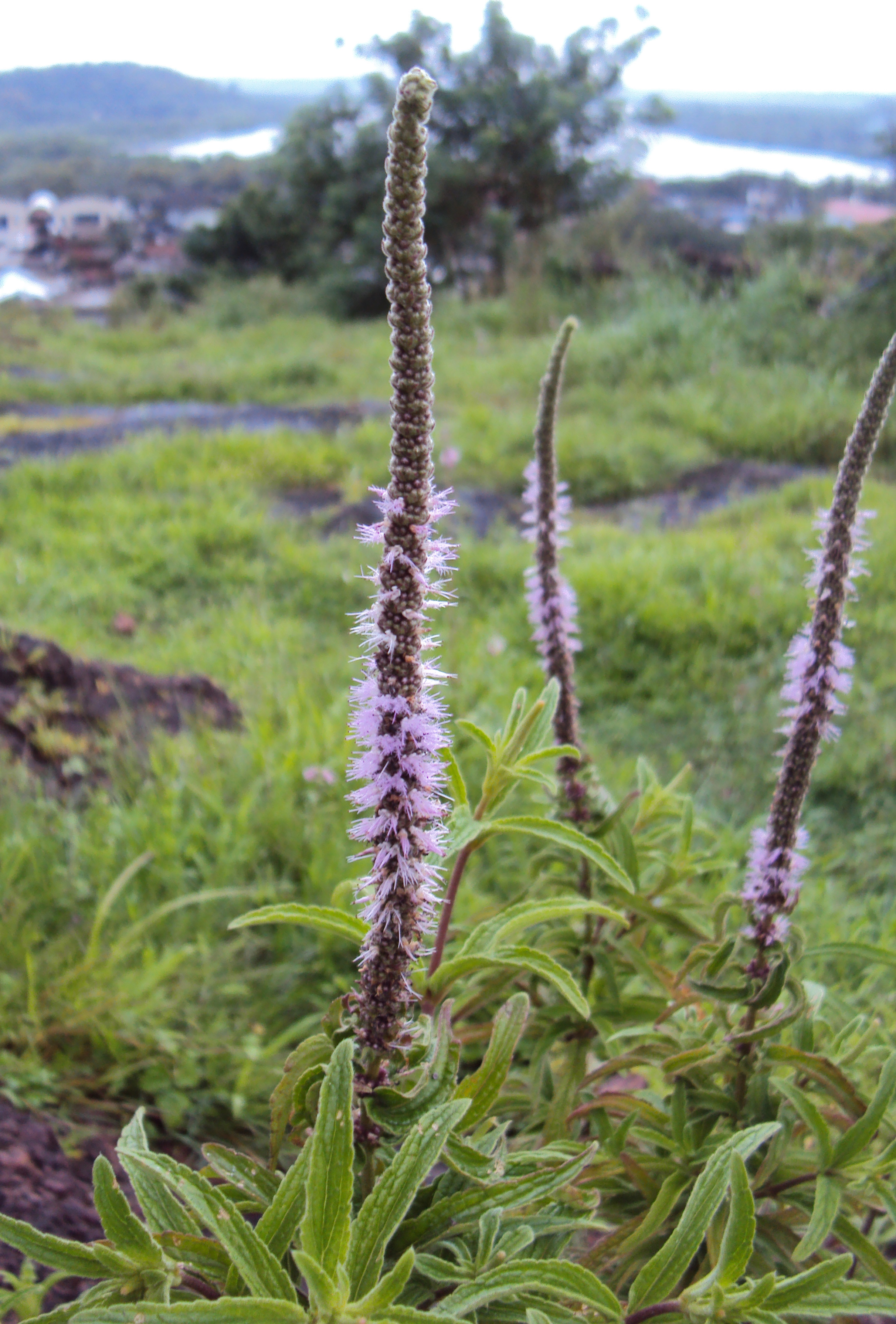 Pogostemon quadrifolius